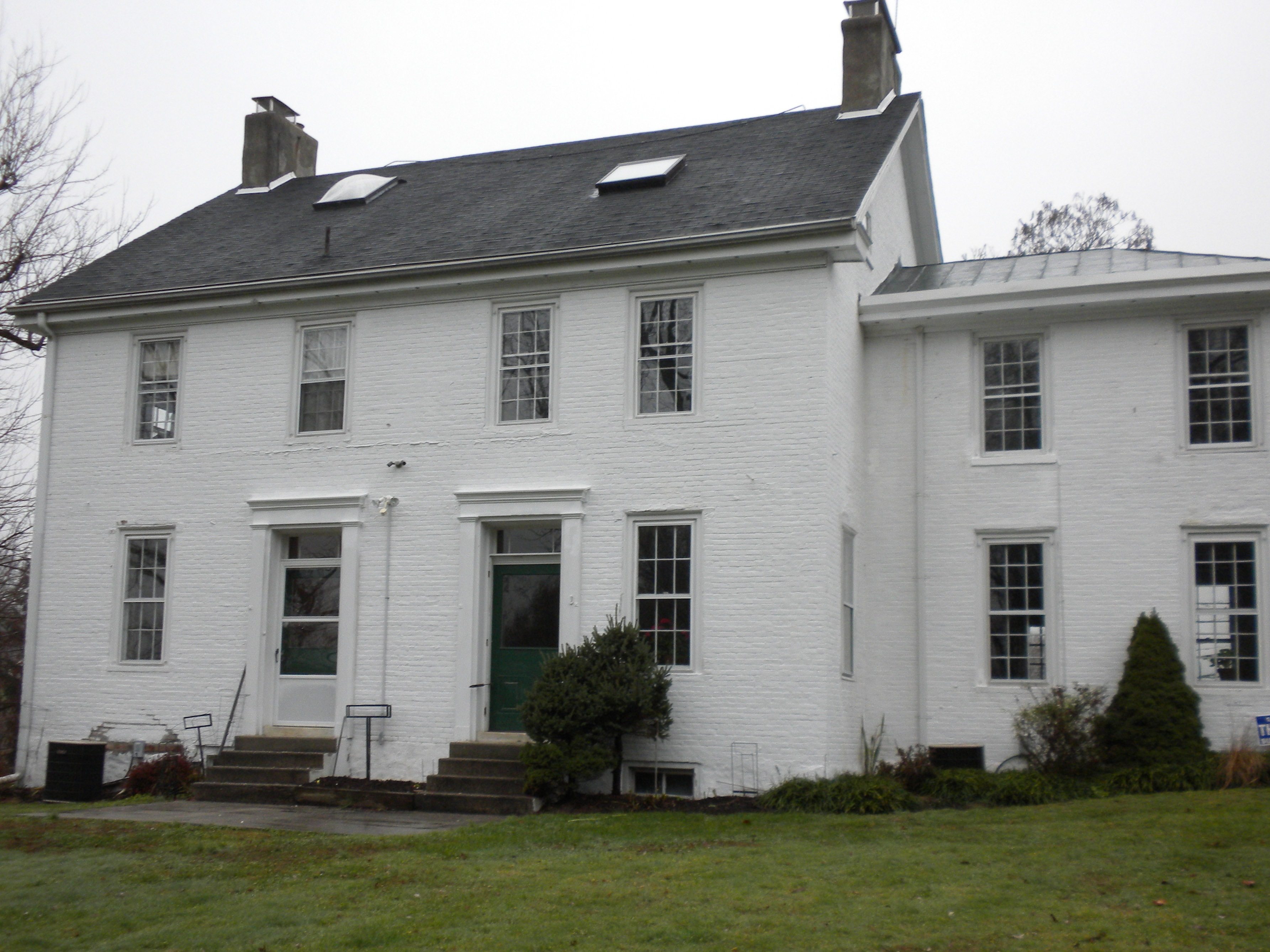 William Painter Farm on NRHP, near "Painter's Crossing" (US 1 and US 202), in Delaware County, PA.